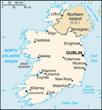 CIA World Factbook